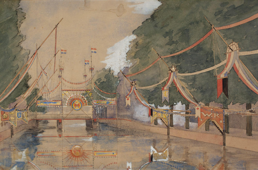 W. Kromhout. Grachtenversiering van Amsterdam t.g.v. de inhuldiging van Koningin Wilhelmina, 1898. Collectie NAI, KROM 23